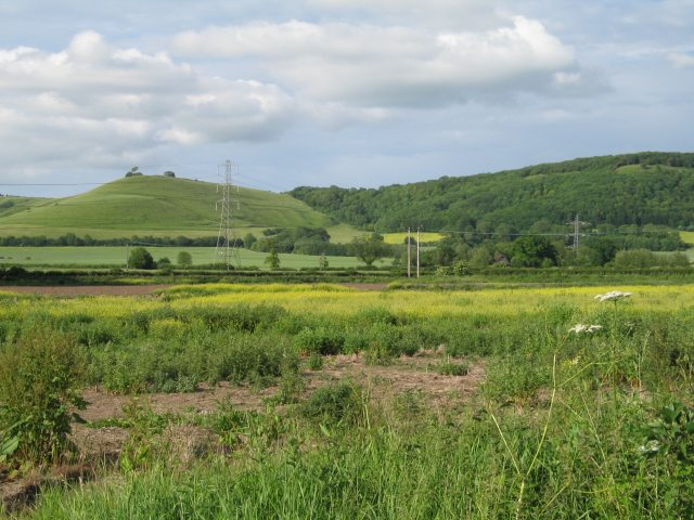 Farmland between Rowde and Roundway. In the background, to the left of centre, is the promontory fort of Oliver's Castle. Roundway Hill is to the right.